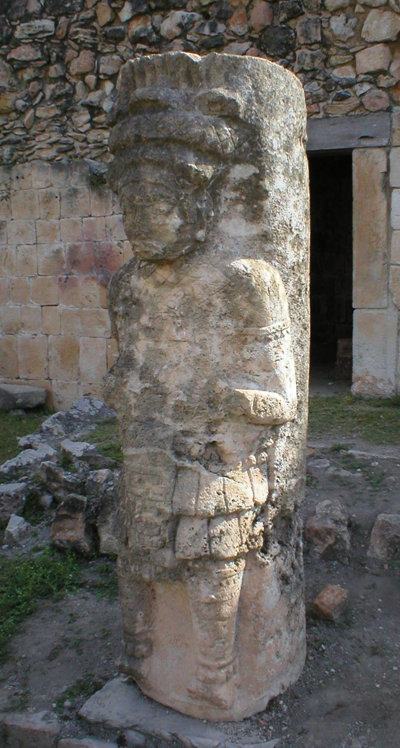 Sculpted Column from the Ancient Maya Site of Oxkintok, Yucatan, Mexico. Photo by David R. Hixson.